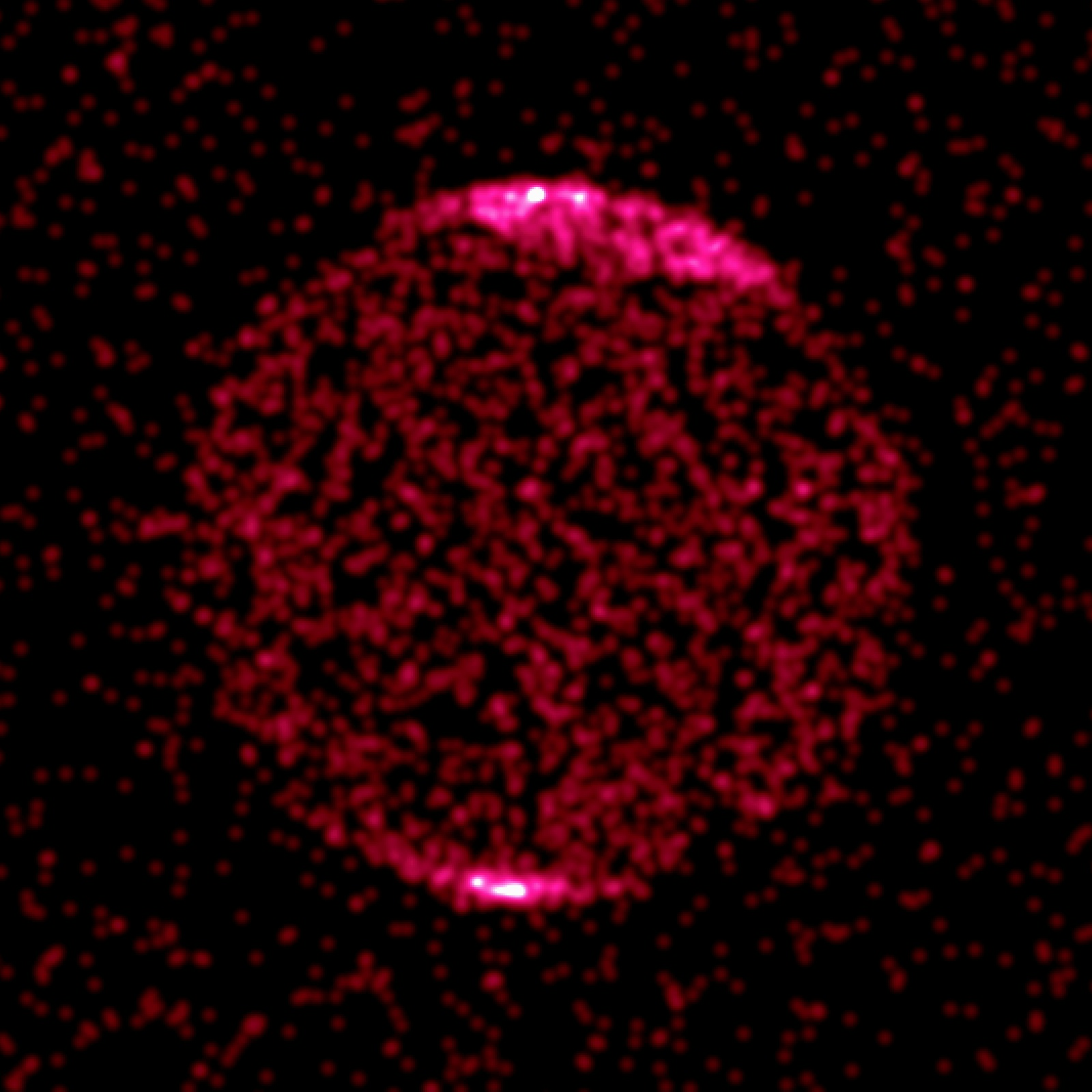 This false-colour image of Jupiter in X-ray spectrum shows concentrations of auroral X-rays near the north and south magnetic poles. Chandra observed Jupiter for its entire 10-hour rotation.